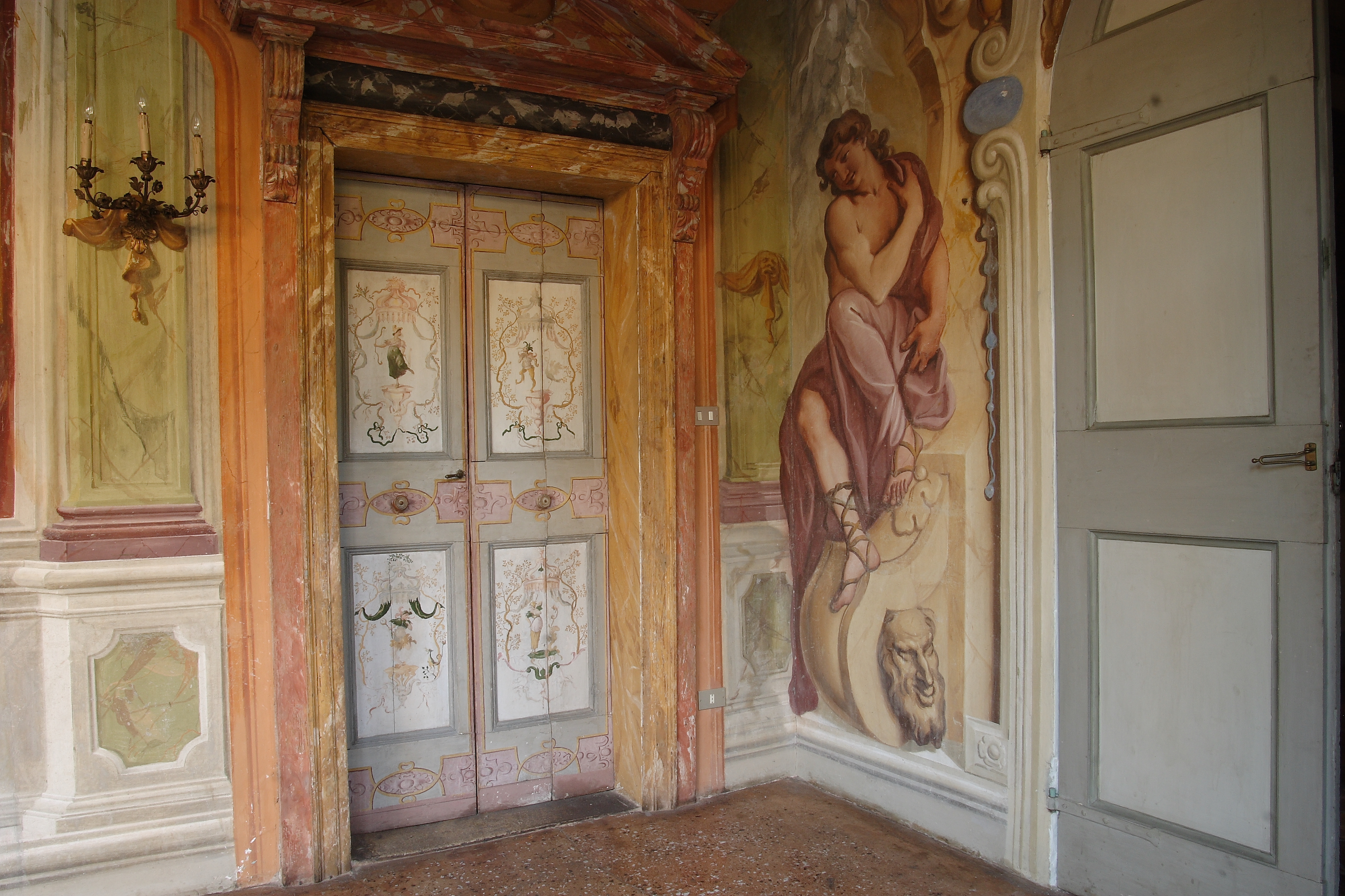 Frescoes in the dancing room